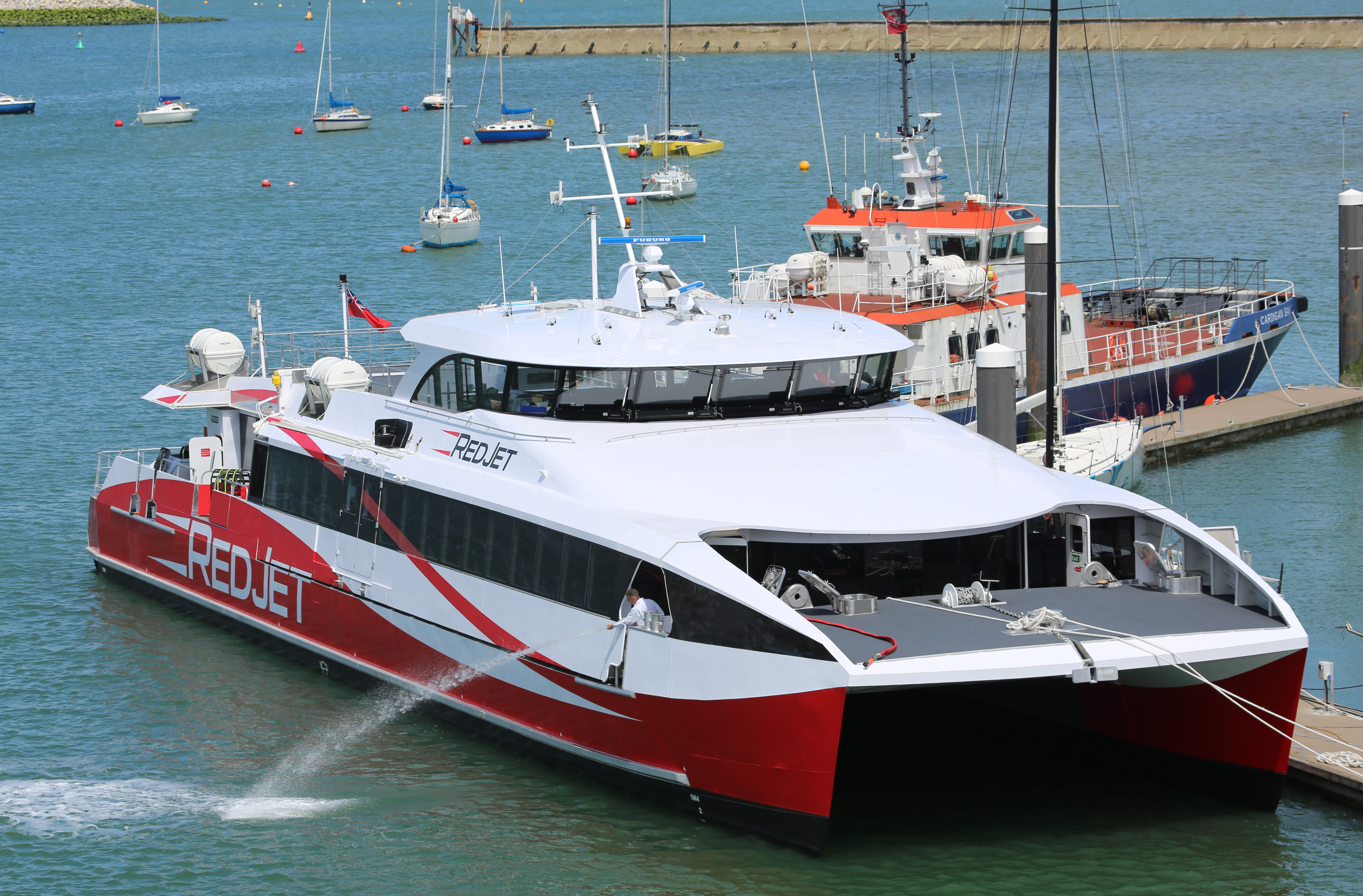 Red Jet 6 at East Cowes 30 June 2016